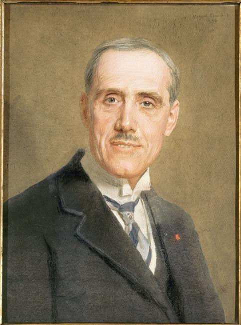 Drawing of the physicist Maurice de Broglie